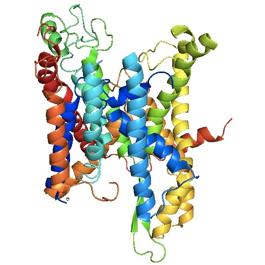 Three-dimensional structure of Sec61 complex from the perspective of the plasmatic membrane. Based on PyMOL rendering of PDB.